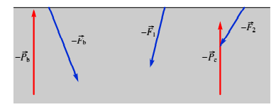 Forças exercidas sobre o chão.